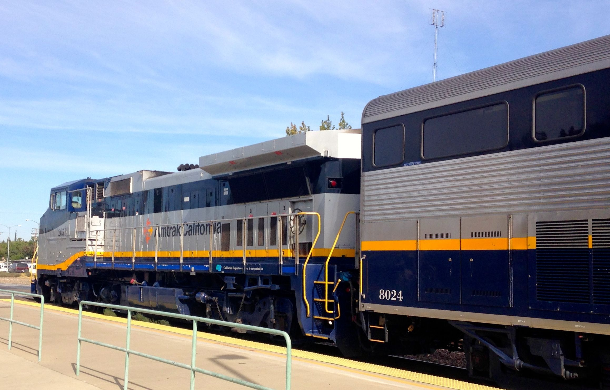 Amtrak California (CDTX) locomotive #2051, a GE Dash 8-32BWH pulling the San Joaquin through Merced, California.